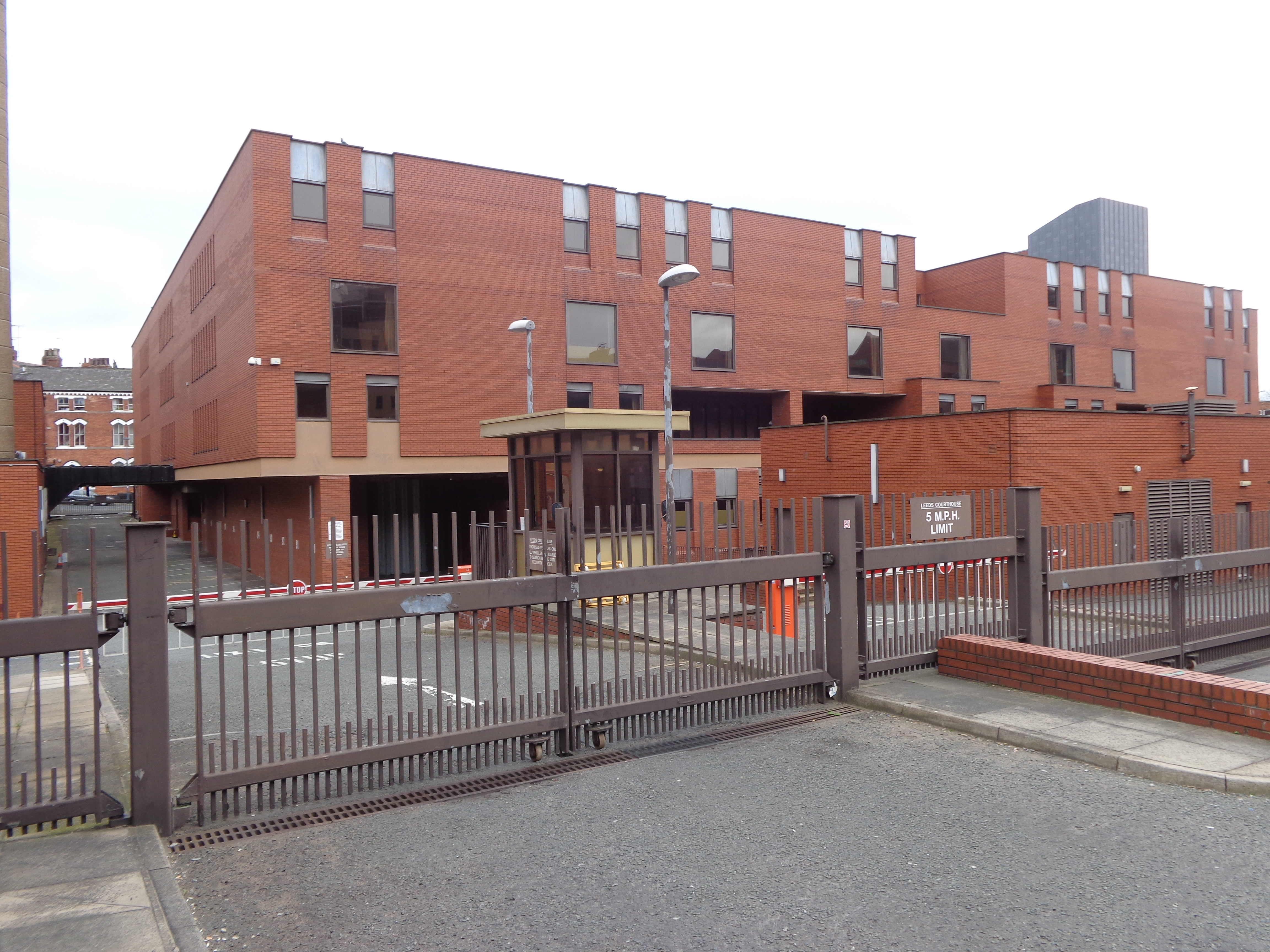 Leeds Crown Court from Park Street, Leeds, West Yorkshire. Taken on the afternoon of Saturday the 12th of April 2014.